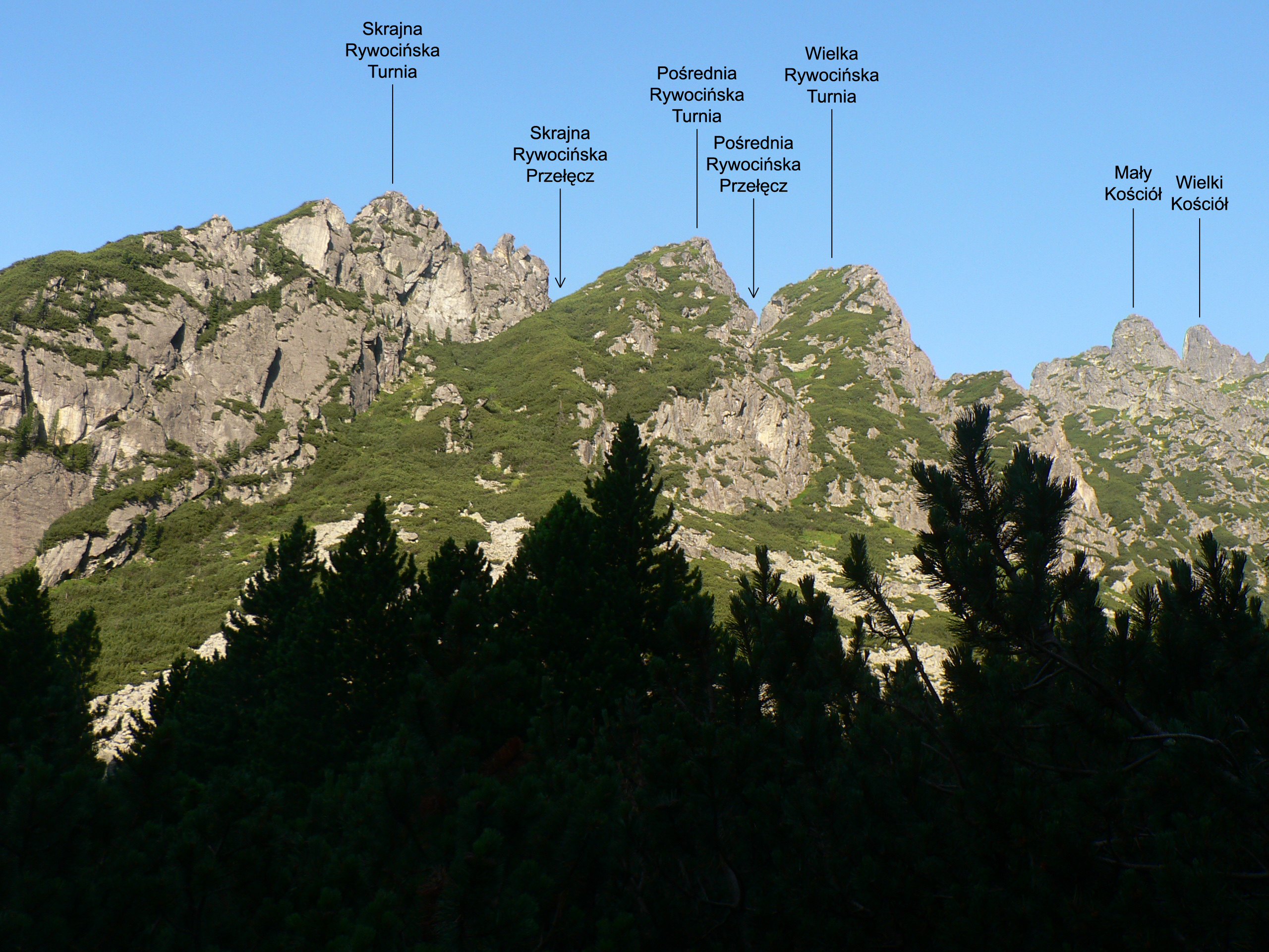 Oštepy and Kostoly – view from Malá Studená Valley (Polish names of places).